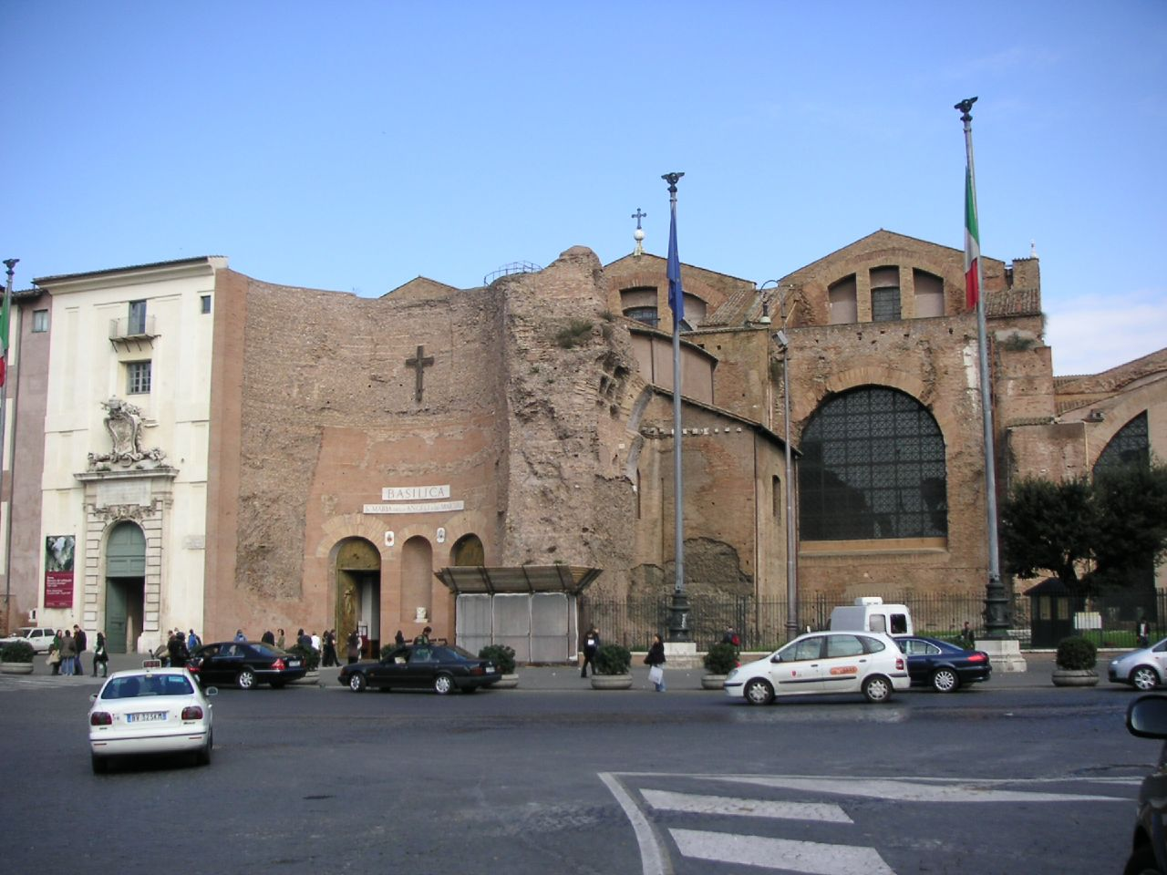 Santa Maria degli Angeli (Rome).Church